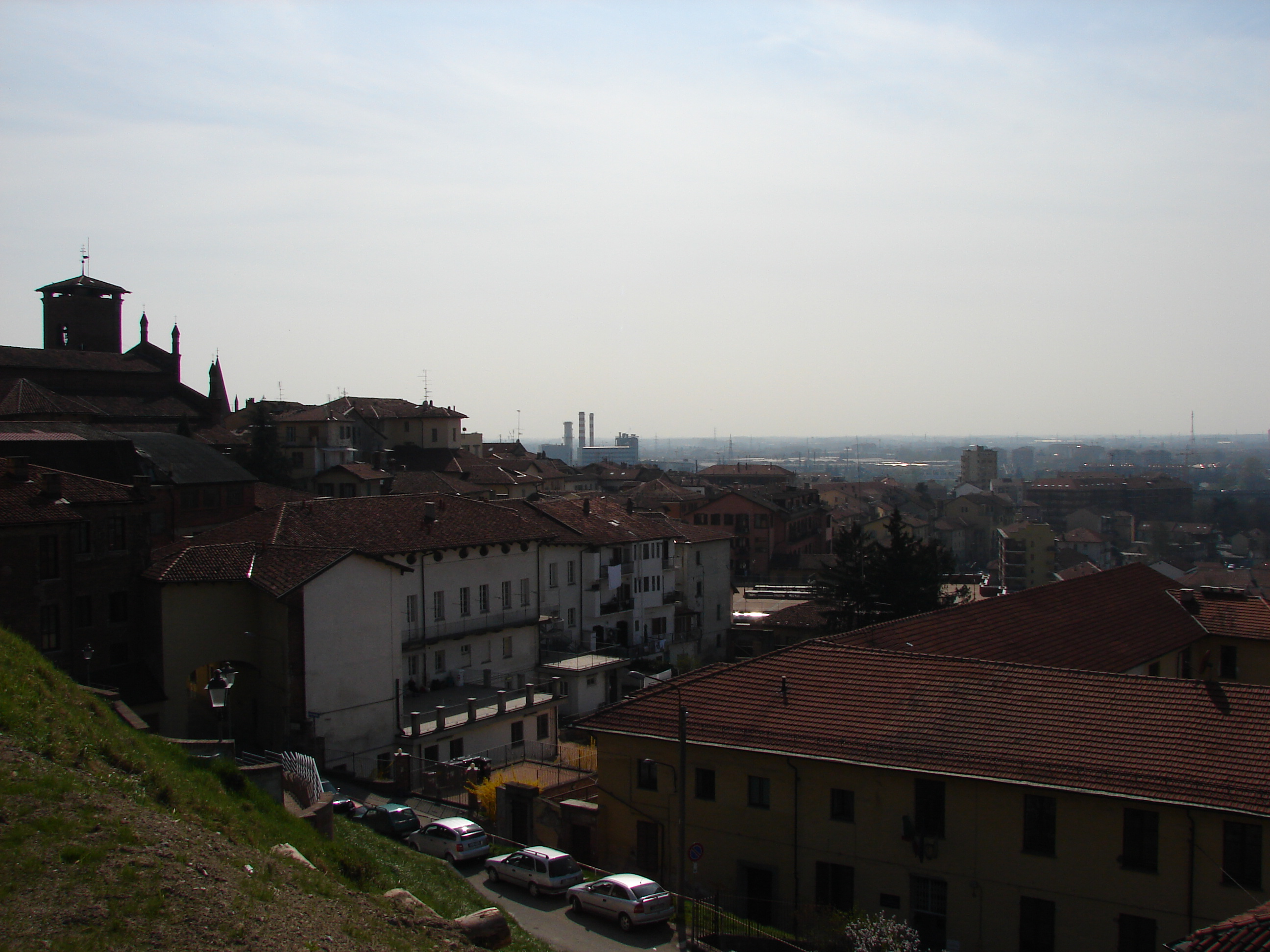 Author: Miguel Tremblay Date: March 31 2006 Source: Photo taken by me on a visit at Moncarielli Place: View of Moncalieri. See Moncalieri for more informations.